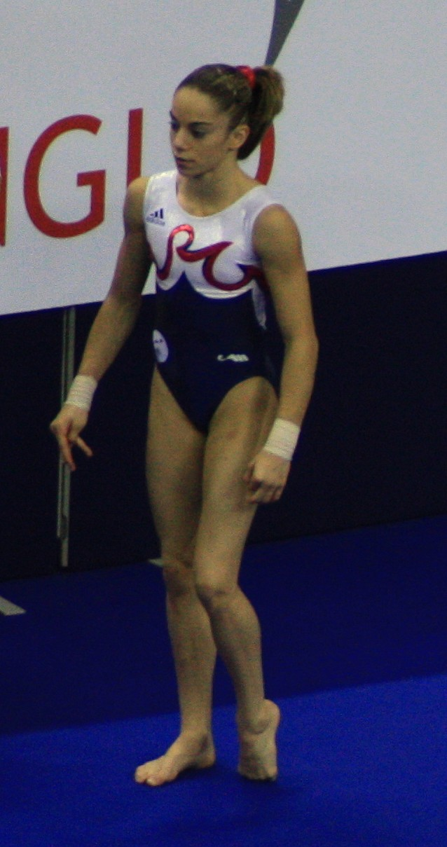 Youna Dufournet during the female vault final of the 2009 World Artistic Gymnastics Championships.